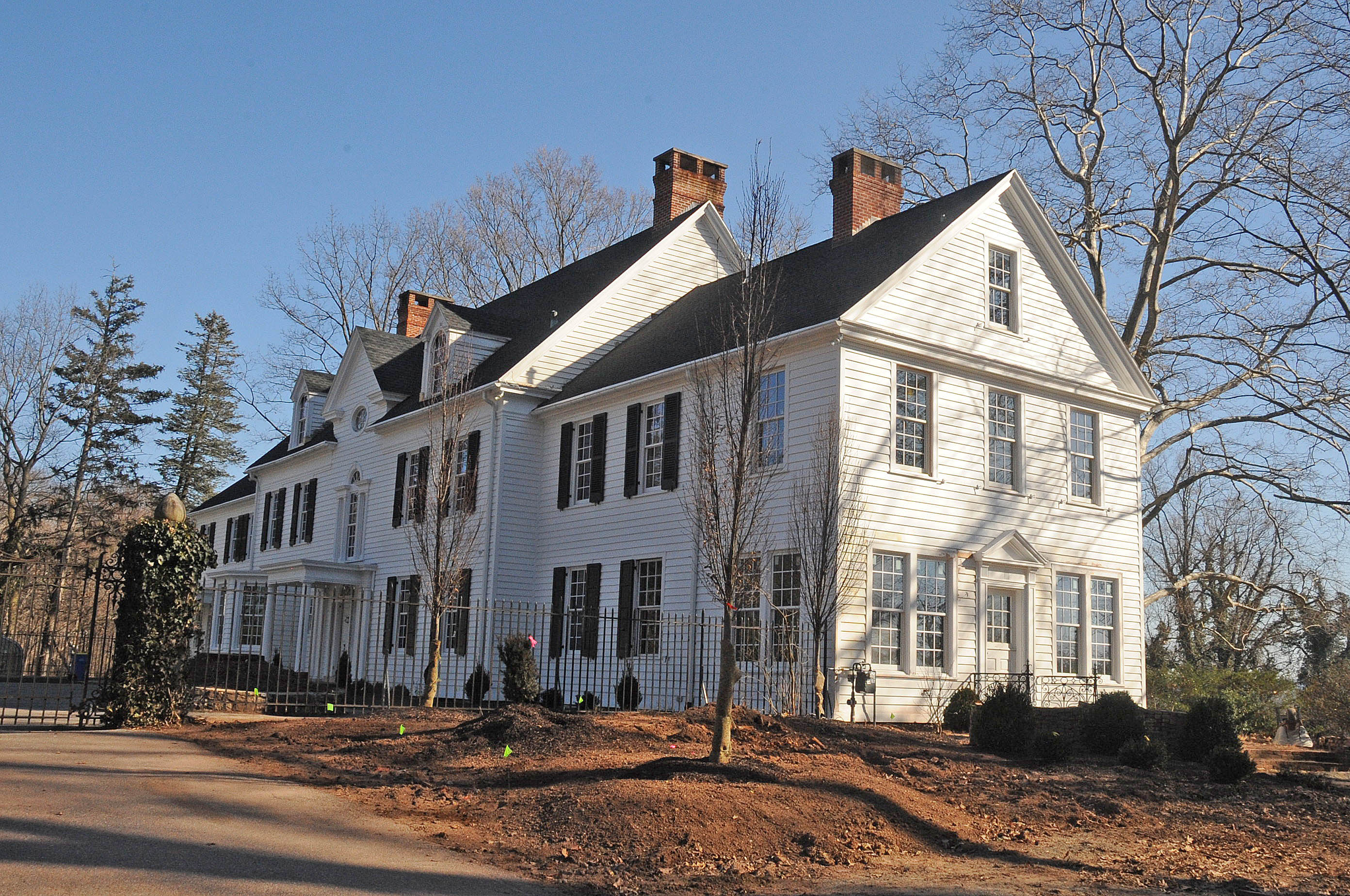 MANOR HOUSE BUILT IN 1900 BY THE SMALL FAMILY AND MODIFIED 1936 TO 1941 BY THE APPELLS; IT IS BUILT IN COLONIAL REVIVAL STYLE